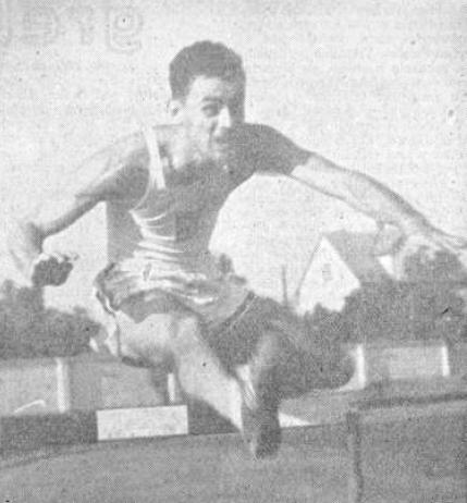 Stanko Lorger (1931-2014), Slovene athlete